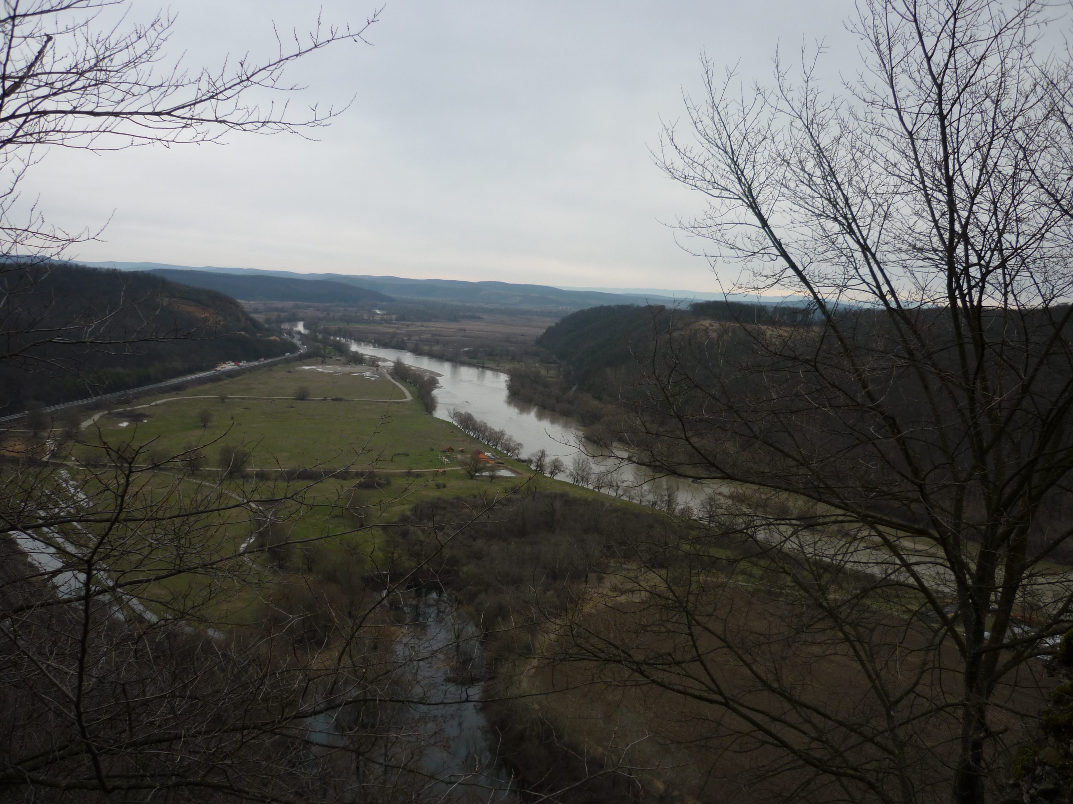 View of river Mures from the peak of Şoimoş.